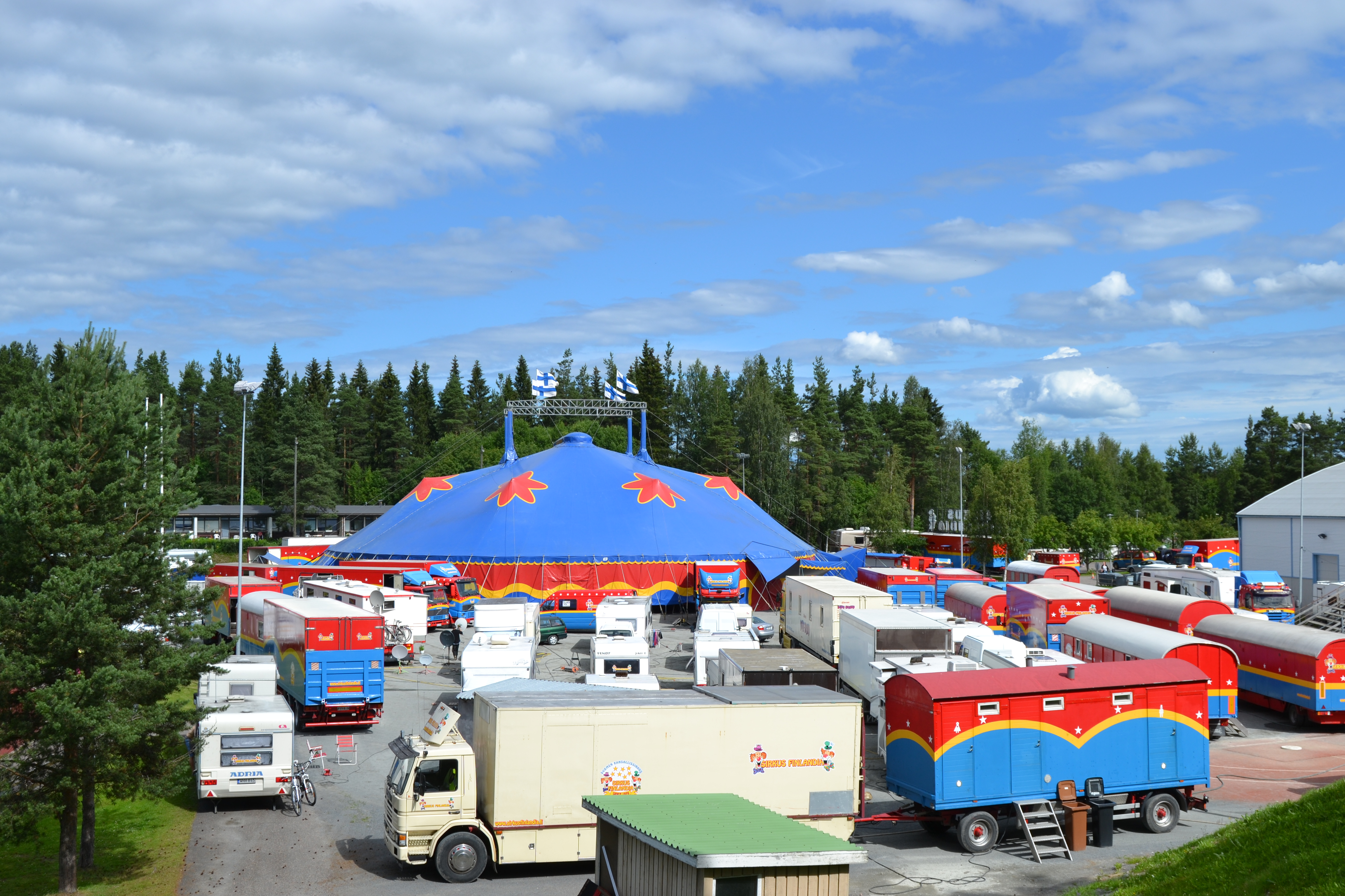 Sirkus Finlandia